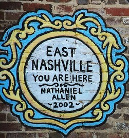 Photo I took at 5 points